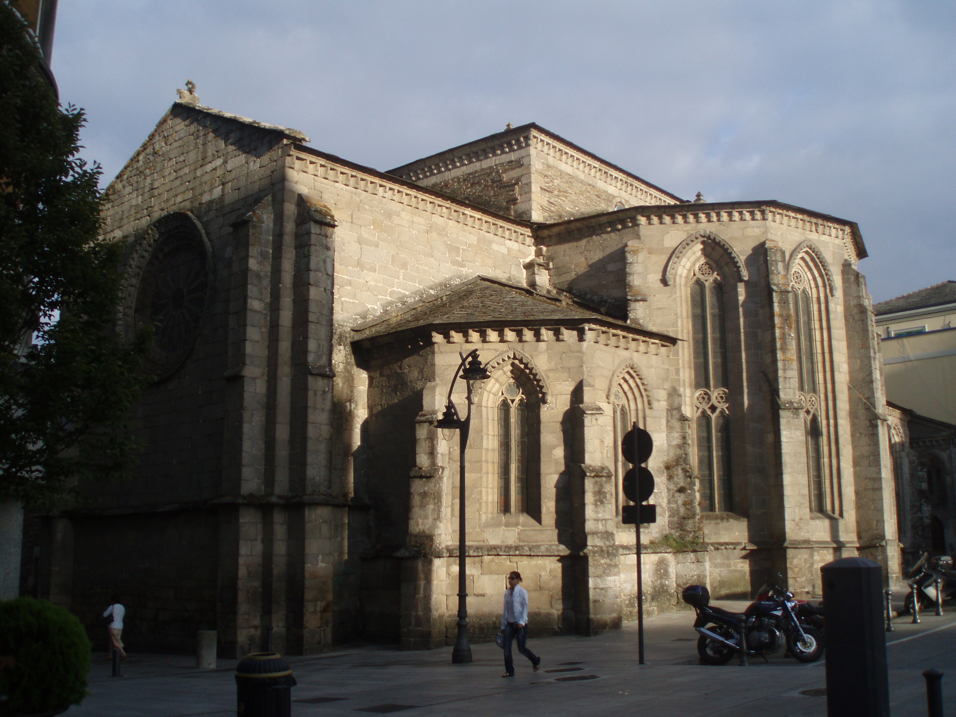 Church of San Peter of Lugo (Spain)